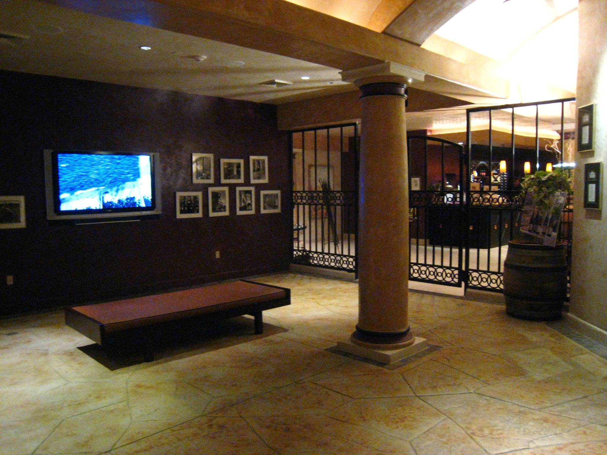 Ferrari-Carano Reserve tasting room in Sonoma Valley, California